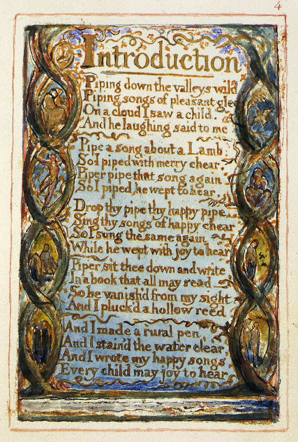 Songs of Innocence and of Experience, copy Z, object 4 (Bentley 4, Erdman 4, Keynes 4) "Introduction" Dealer: A. S. W. Rosenbach acting for Rosenwald in 1938 Note: Acquired from Blake by Henry Crabb Robinson in 1826; given by Robinson to Edwin W. Field in March 1863; inherited by Mrs. Edwin W. Field; given by her to F. W. Burton, October 1871; given by Burton to Charles Fairfax Murray in June 1900; sold posthumously from Murray's collection, Sotheby's, 7 July 1919, lot 8 (£600 to the dealer Sabin); Willis Vickery by no later than 1927; sold posthumously from Vickery's collection, American Art Association-Anderson Galleries, 1 March 1933, lot 16 ($6,000 to the dealer A. S. W. Rosenbach); Frank Lewis Bemis by no later than 1939; sold posthumously from Bemis's collection through Rosenbach to Lessing J. Rosenwald on 4 Nov. 1938; given by Rosenwald to The Library of Congress in 1945.